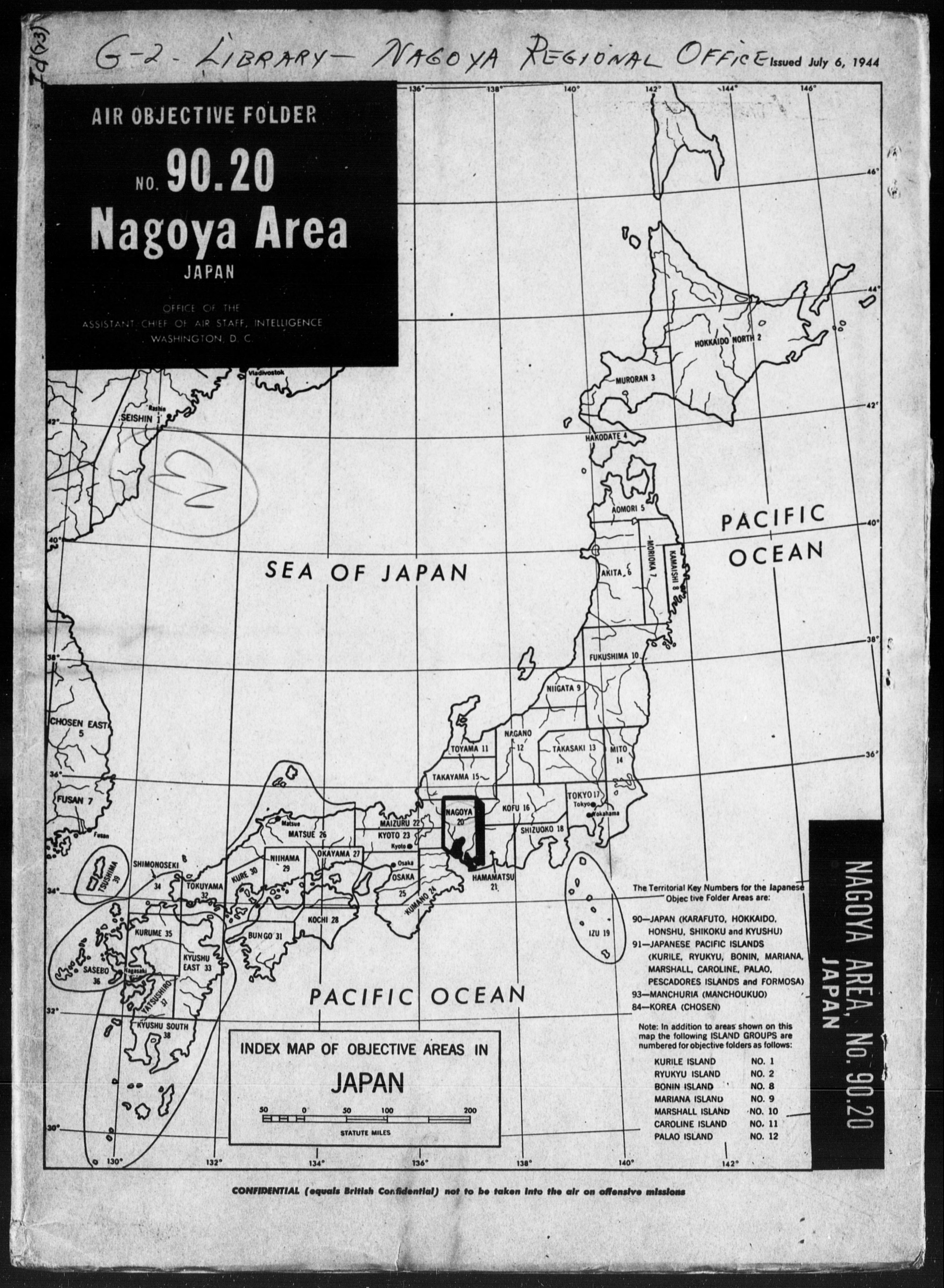 Record Group 243: Records of the U.S. Strategic Bombing Survey, 1928 - 1947 Series: Air Objective Files, 1942 - 1944: File Unit: Air Objective Folders by Target Area: Japan: Nagoya area